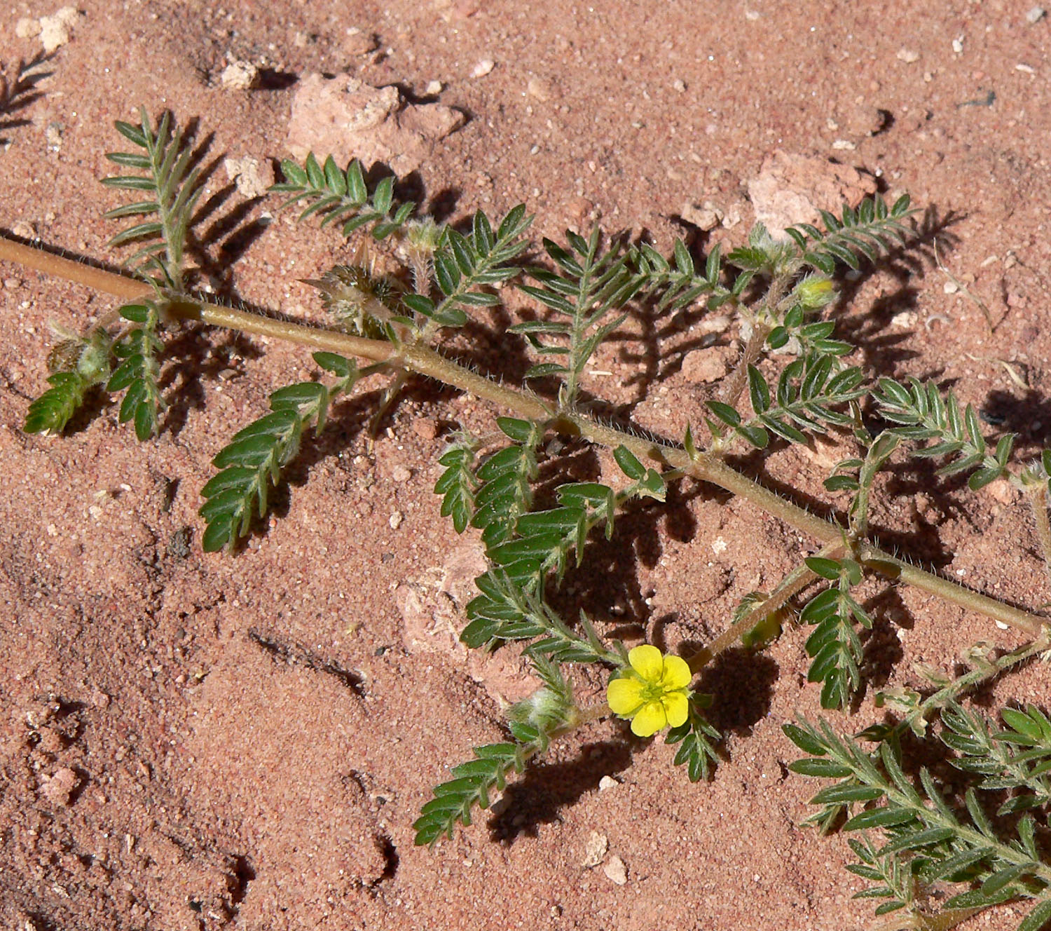 Tribulus terrestris at Red Spring, Calico Basin, Red Rock Canyon, southern Nevada